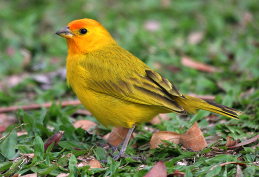 Saffron finch (Sicalis flaveola)